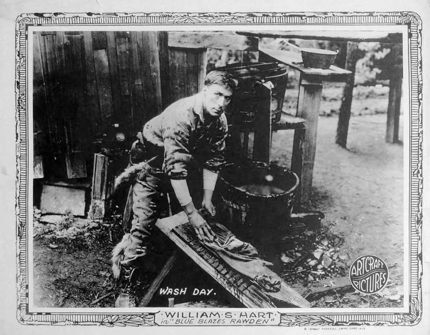 Lobby card for the 1918 film Blue Blazes Rawden.